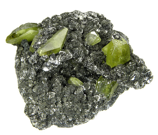 Titanite, Clinochlore Locality: Tormiq valley (Tormic; Tormik; Tormig; Turmiq), Haramosh Mts., Skardu District, Baltistan, Northern Areas, Pakistan (Locality at ) Size: 4.7 x 3.8 x 2.2 cm. Tormiq has produced a great variety of Titanite specimens, in a great range of colors and habits. Some of the varying finds include disc-like, tabular pinkish crystals and steep, honey-colored wedge-shaped crystals, but the most popular and attractive of all the habits of Titanite from this locality would have to be the grass green, blocky, twinned crystals. These are "Alpine-type" Titanite crystals. This specimen features a few pronounced, sharp, lustrous, green, twinned crystals of Titanite up to 1.4 cm long sitting atop beautiful lustrous, metallic, black-green "rosettes" of Clinochlore matrix.